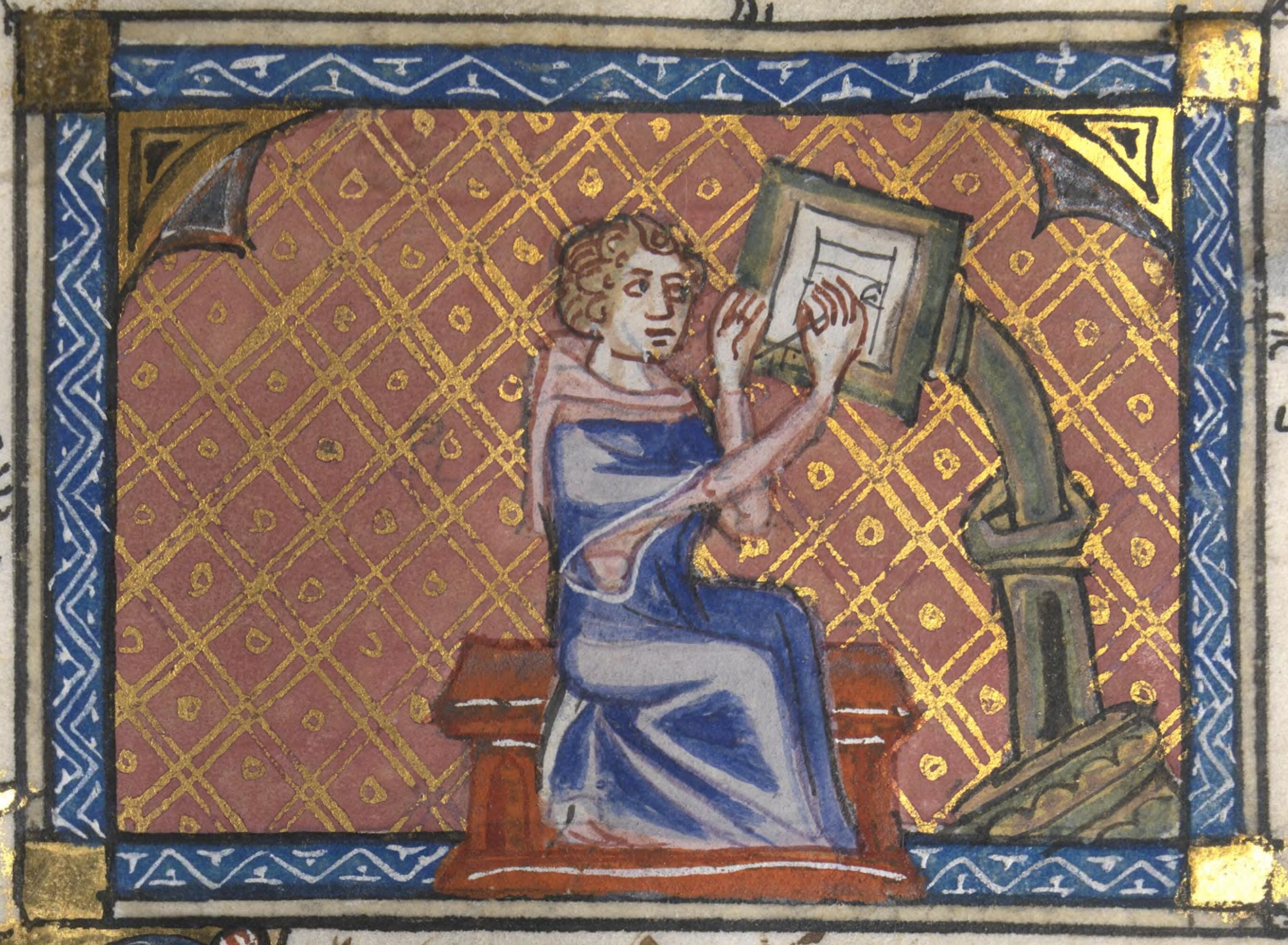 The Roman de la Rose manuscript contains one of the most popular romantic French poems of its time